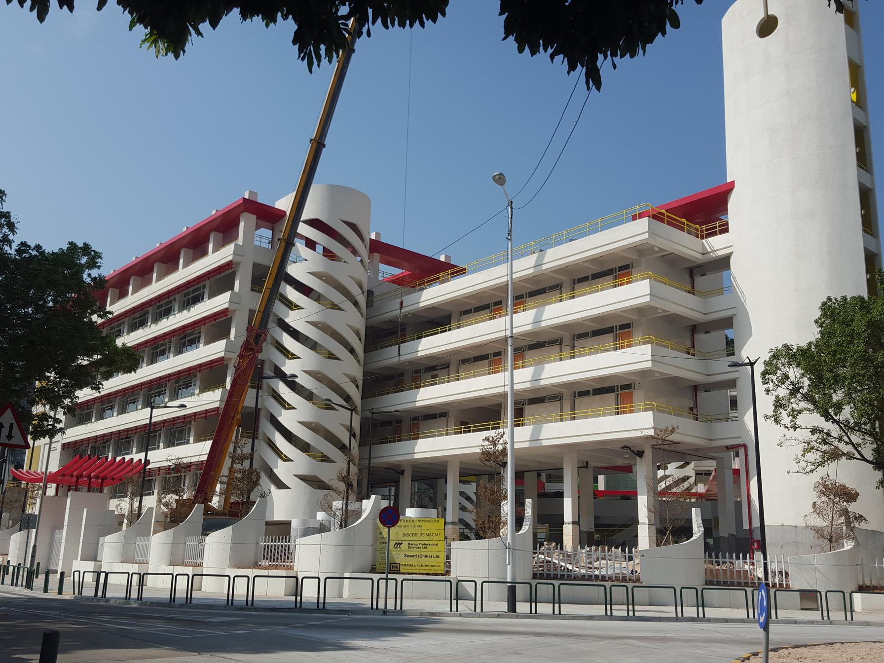 New Campus of University of Saint Joseph